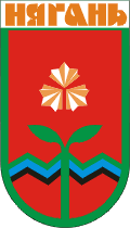 Nyagan (Khanty-Mansia), coat of arms